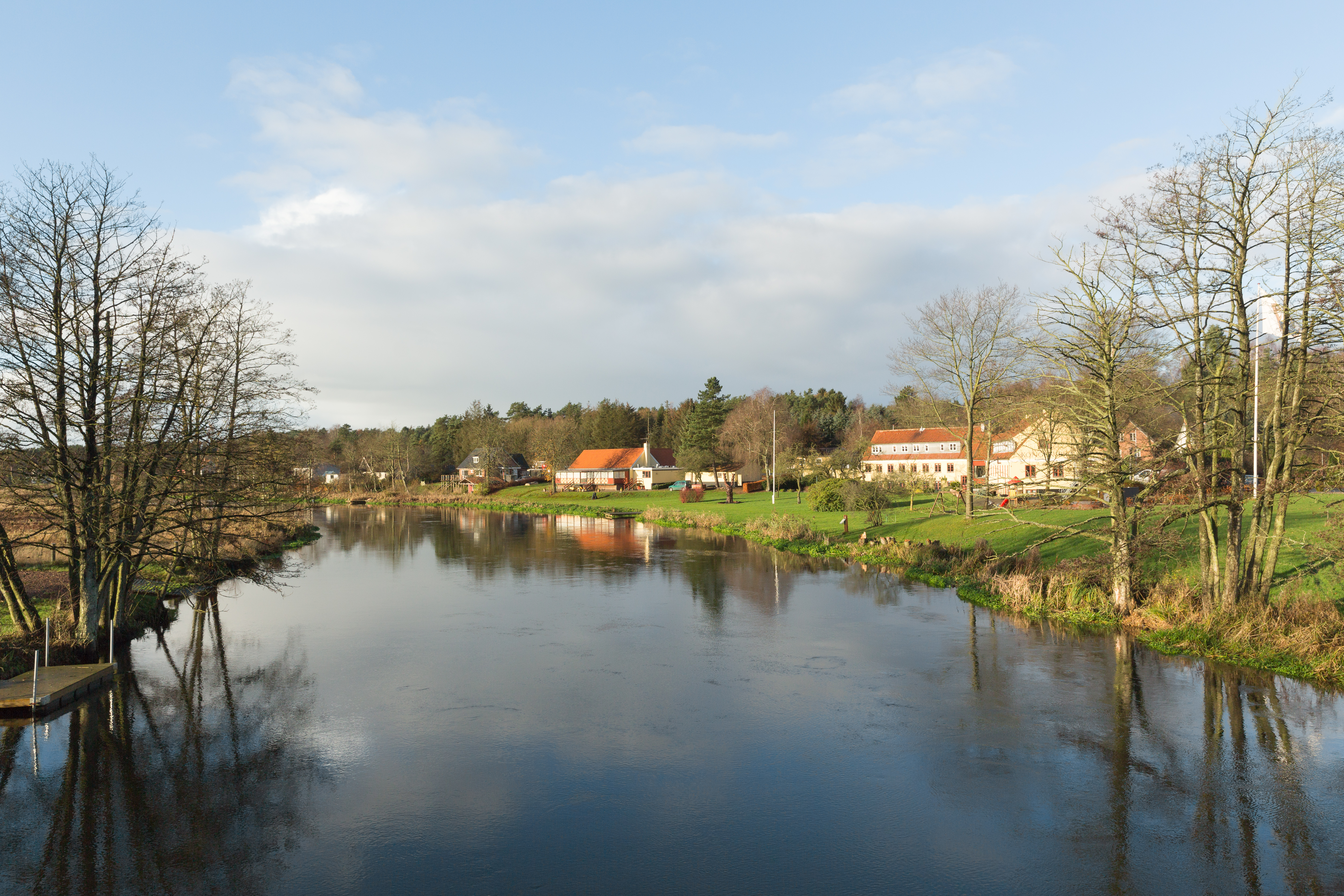 Kongensbro, view from the brigde upstreams Gudenå